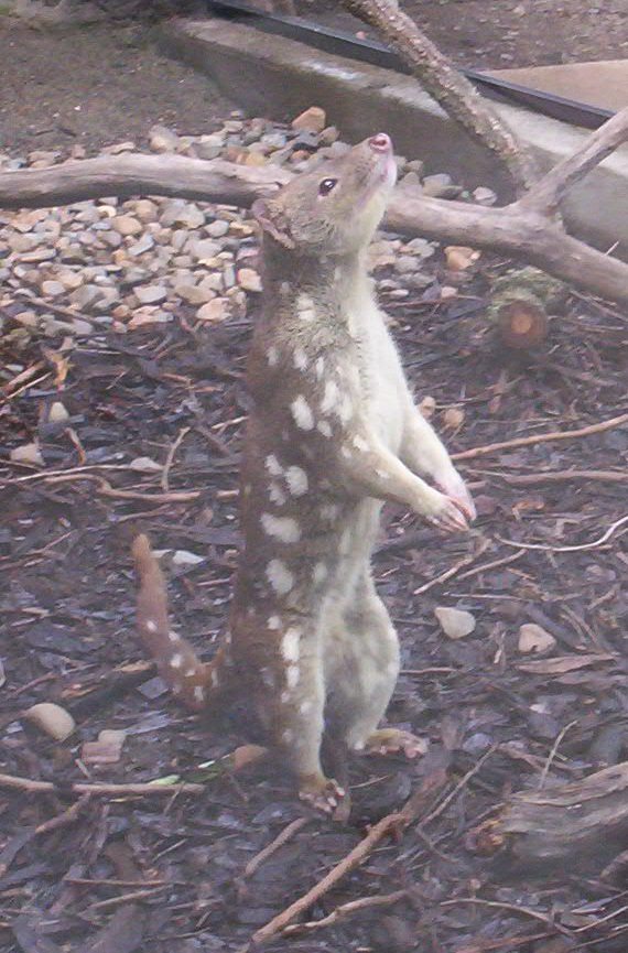 Spotted-tailed Quoll